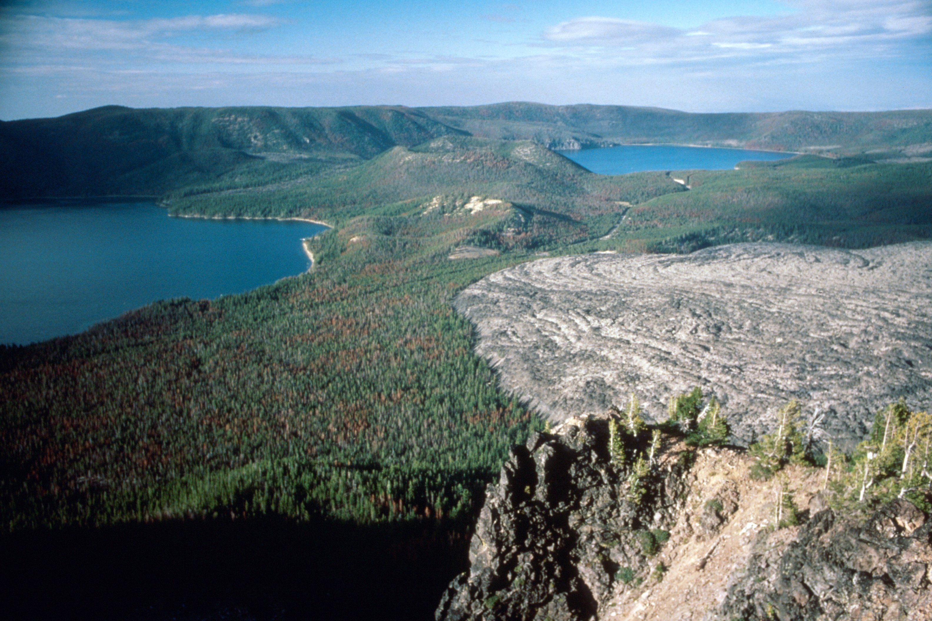 Newberry Caldera showing Paulina and East Lakes, and Big Obsidian Flow.